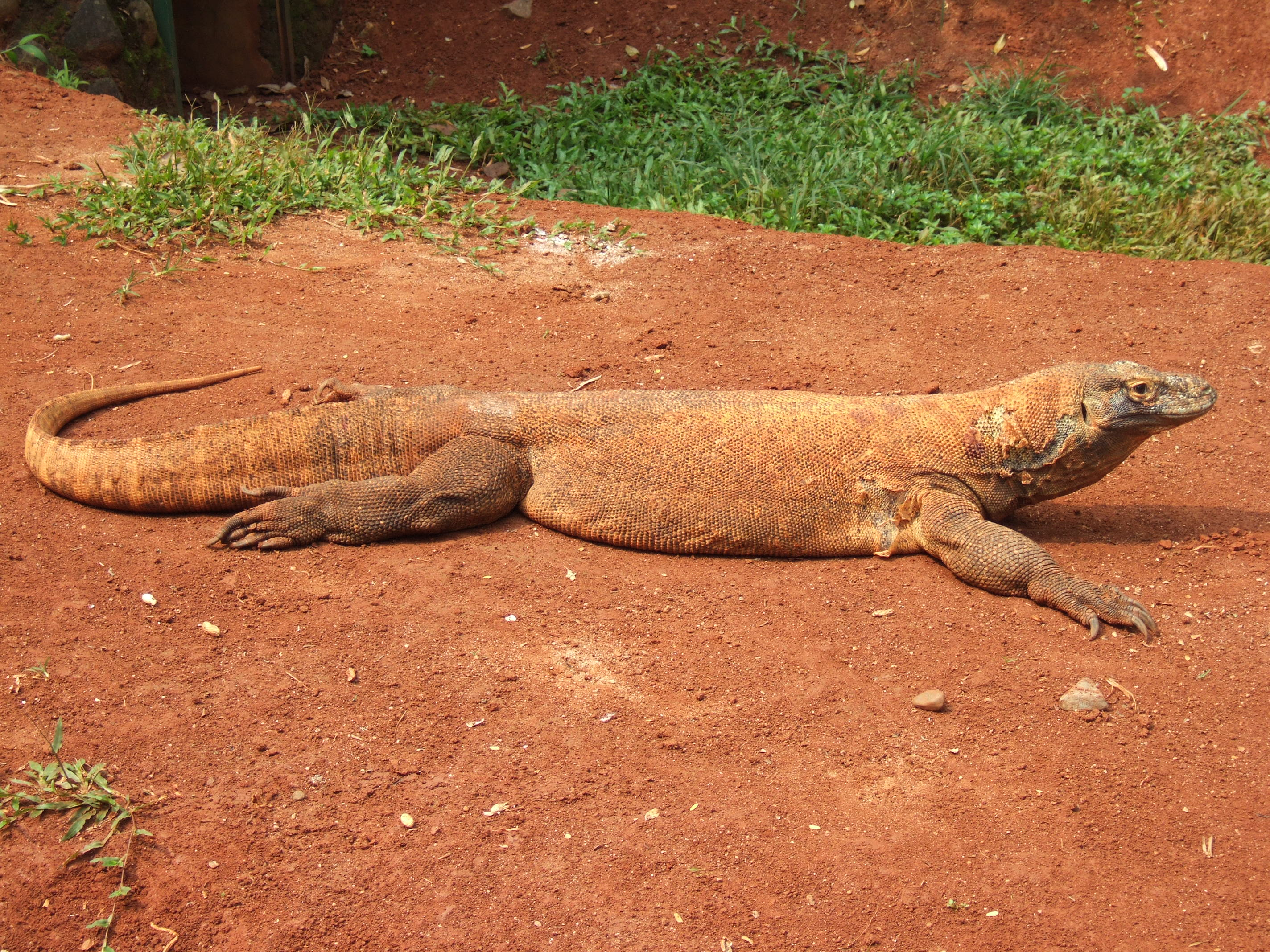 Komodo dragon, Varanus komodoensis (Ragunan Zoo, Jakarta, Indonesia)